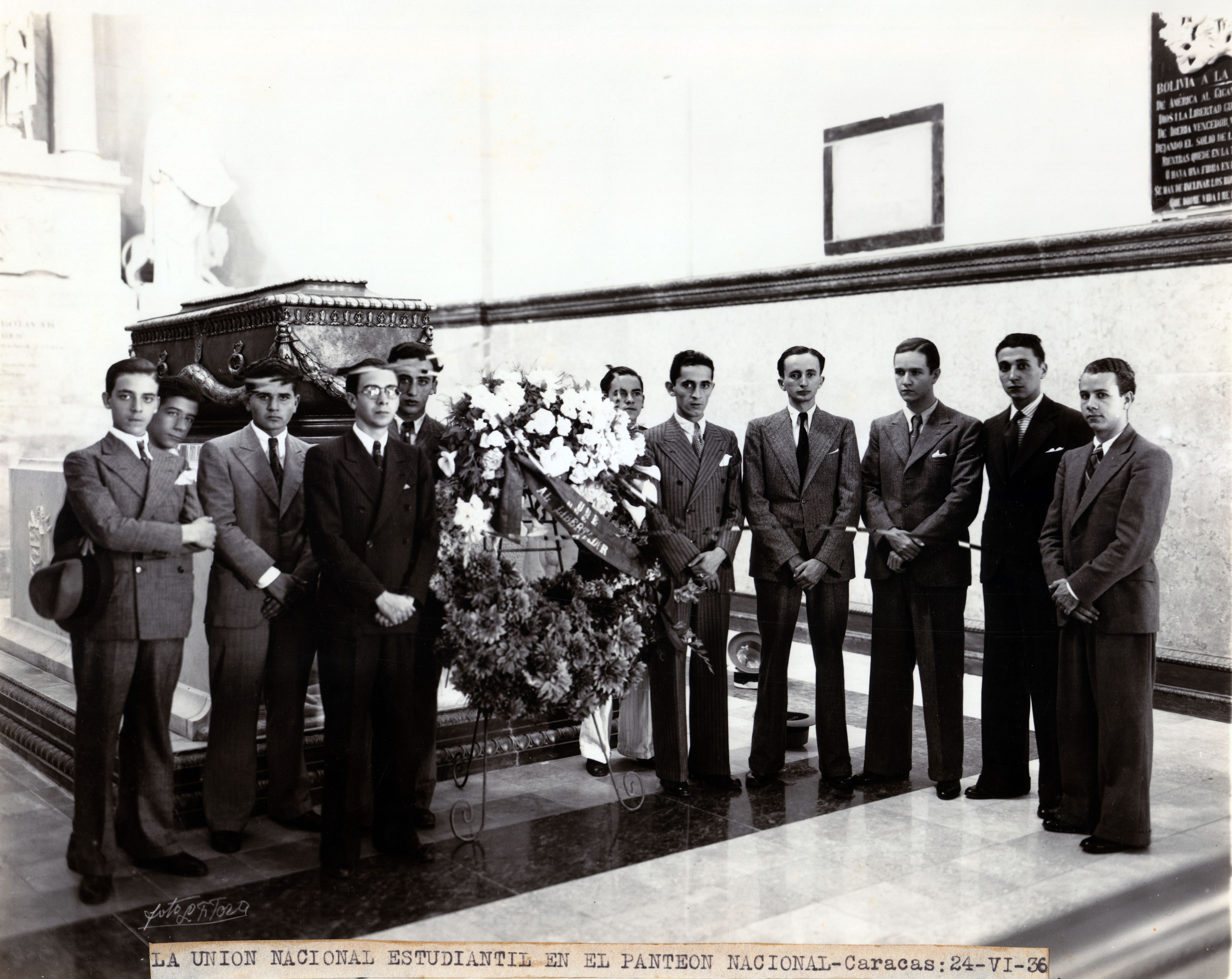 La Unión Nacional Estudiantil rindiendo homenaje a Simón Bolívar en el Panteón Nacional.